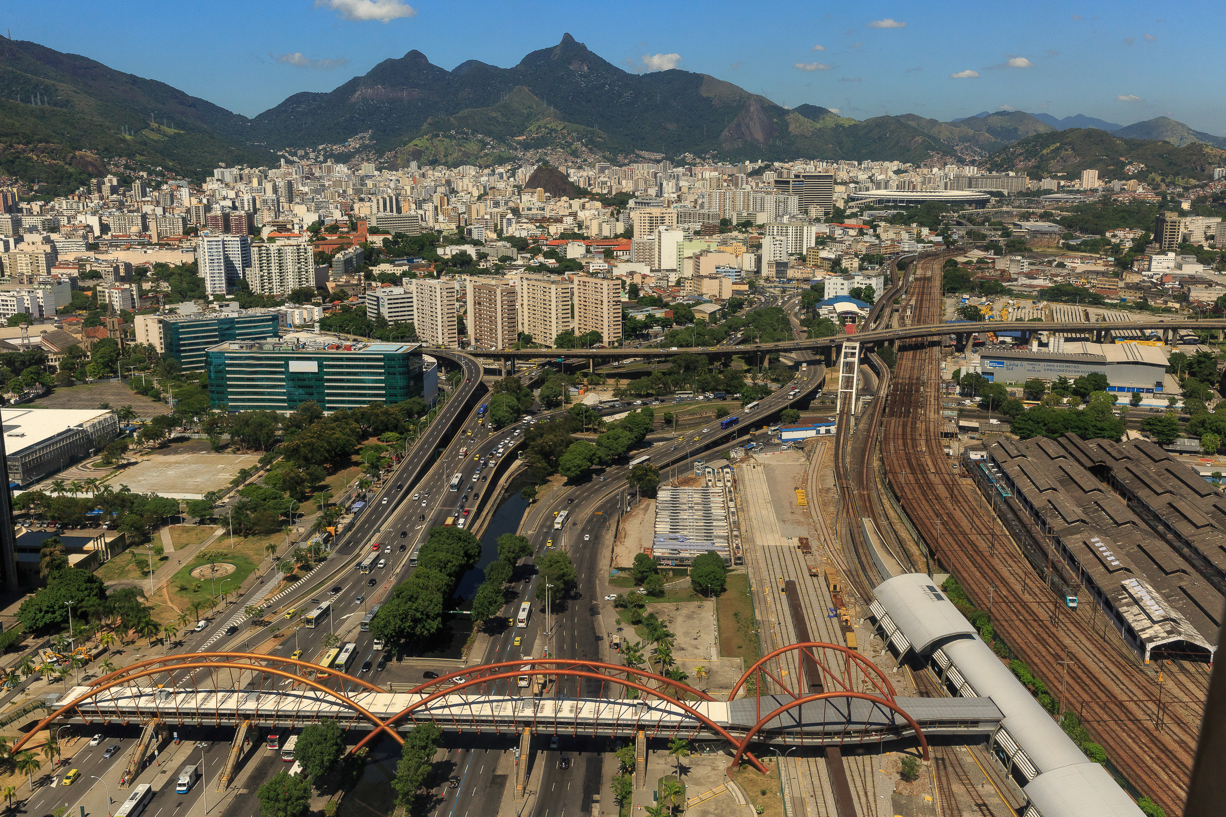 Vista aérea do Rio de Janeiro